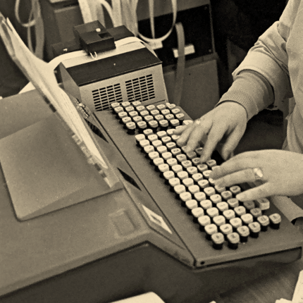 “Keyboard operator”. A keyboard operator in the phototypesetting shop at State Printing House No. 1 in Moscow.